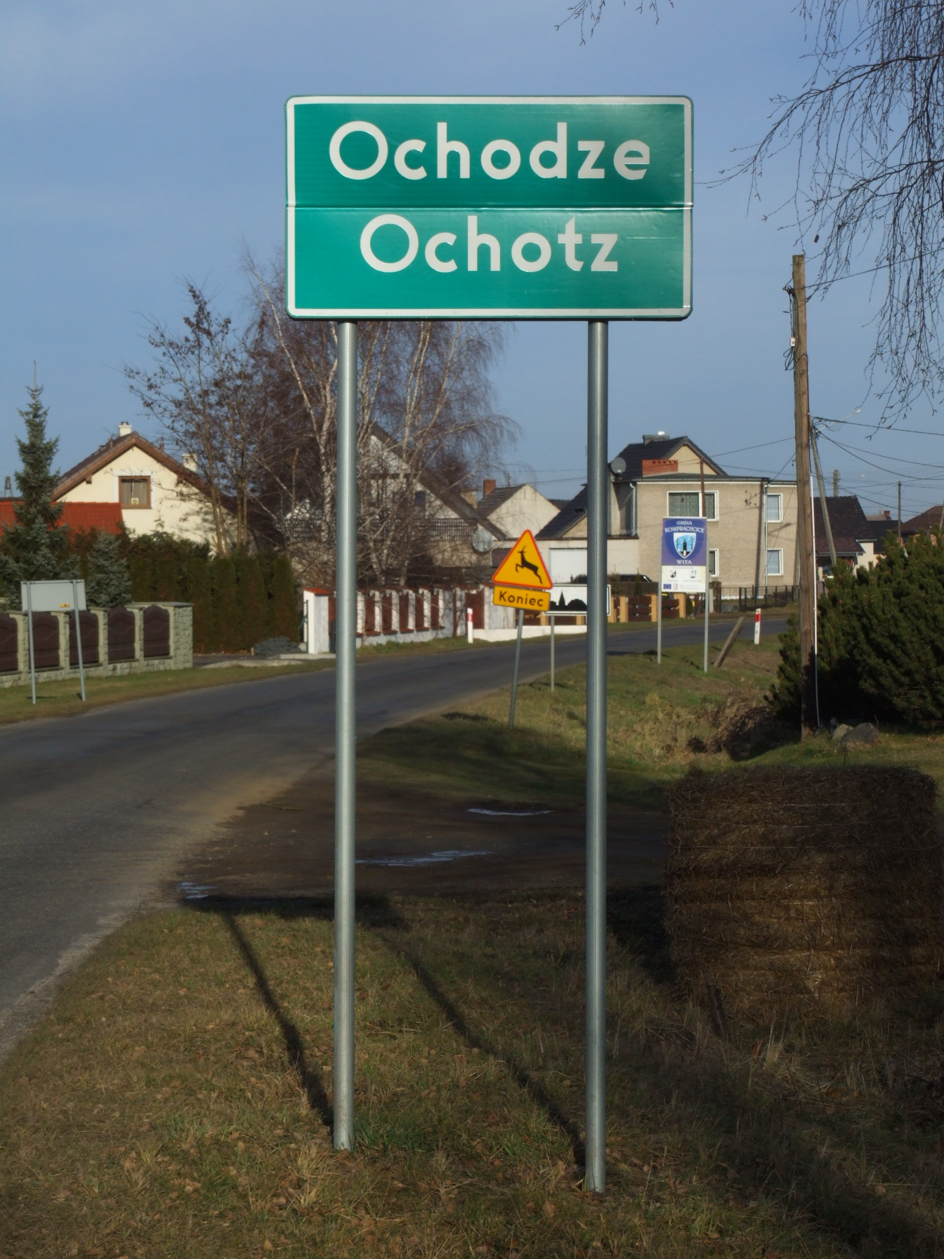 Bilingual polish-german village boundary Ochodze/Ochotz, Upper Silesia